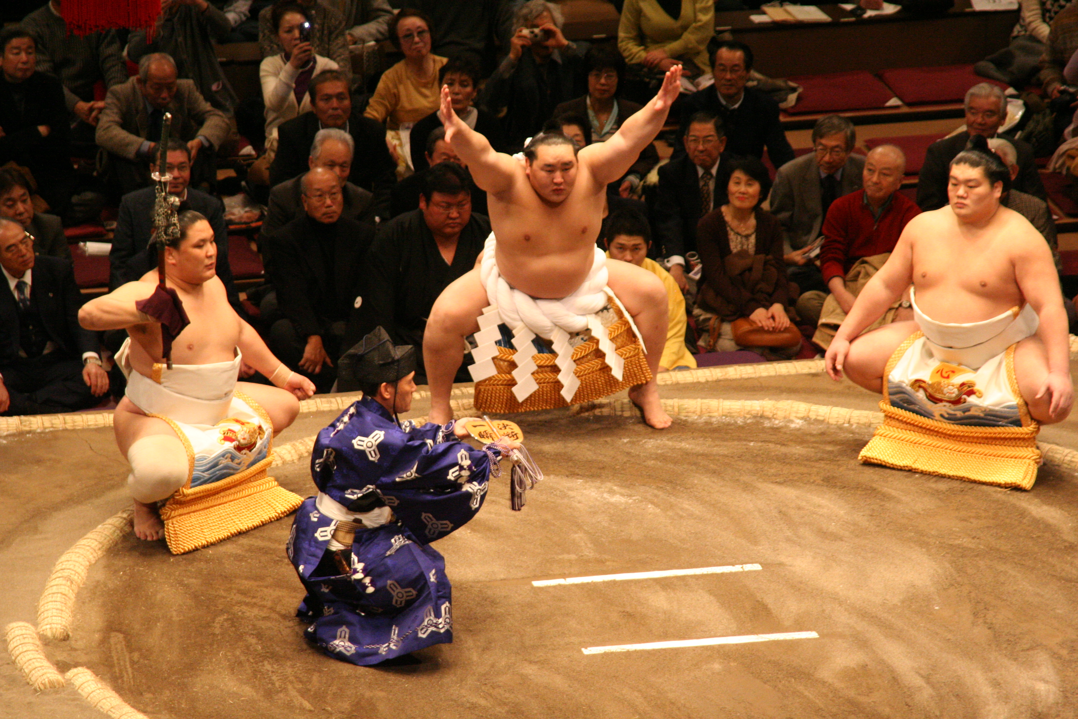 Ring entering ceremony with Yokozuna Asashōryū Akinori. Topic is similar to Image:SumoAsashoryu.jpg but much larger image.